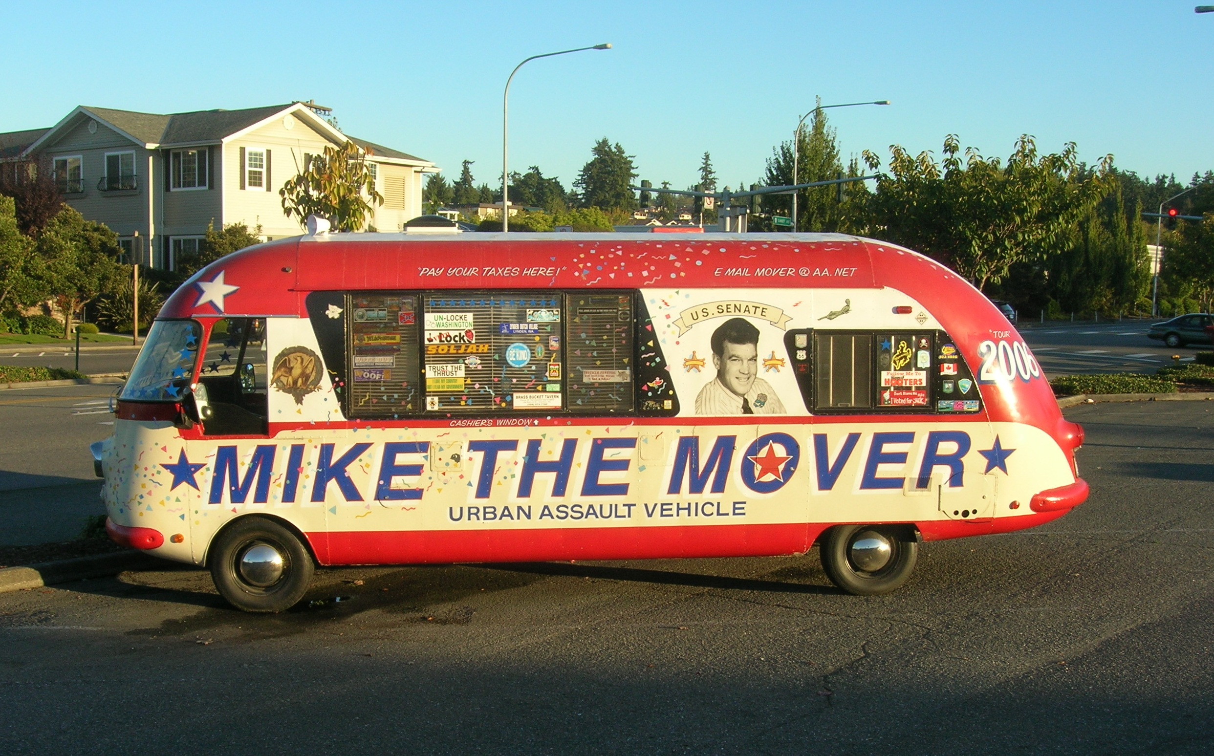 Recreational Vehicle of Mike the Mover, Seattle perennial candidate.